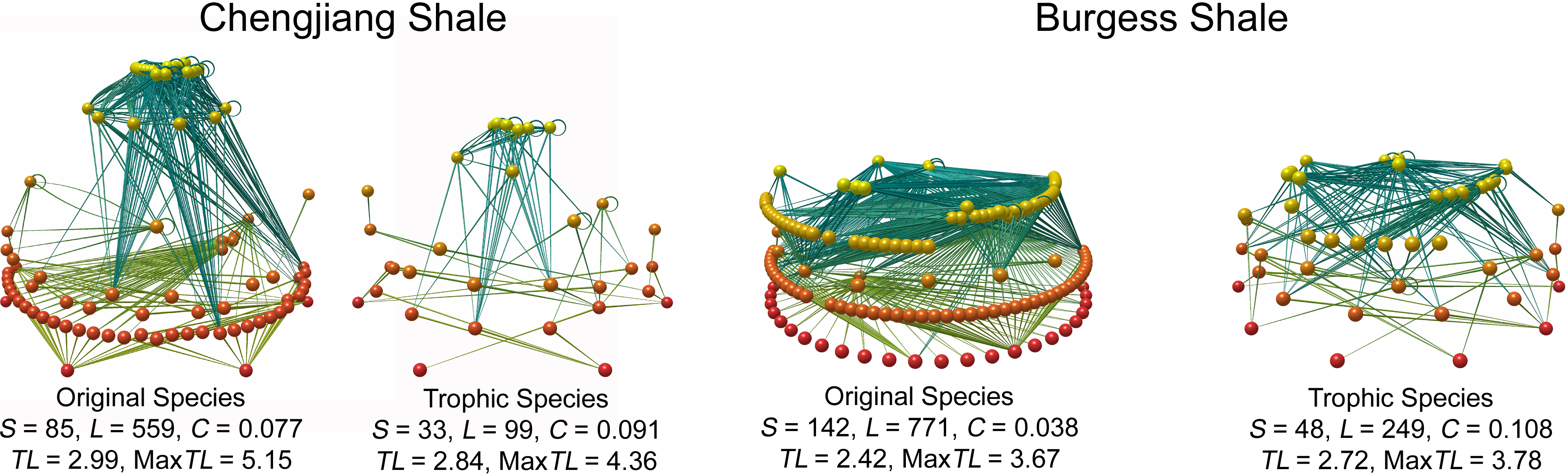 Food web and trophic level of the Chengjiang and Burgess Shale. S: number of species (nodes). L: number of trophic links. C: connectance; L/S2. MaxTL: maximum trophic level of a species in the web.